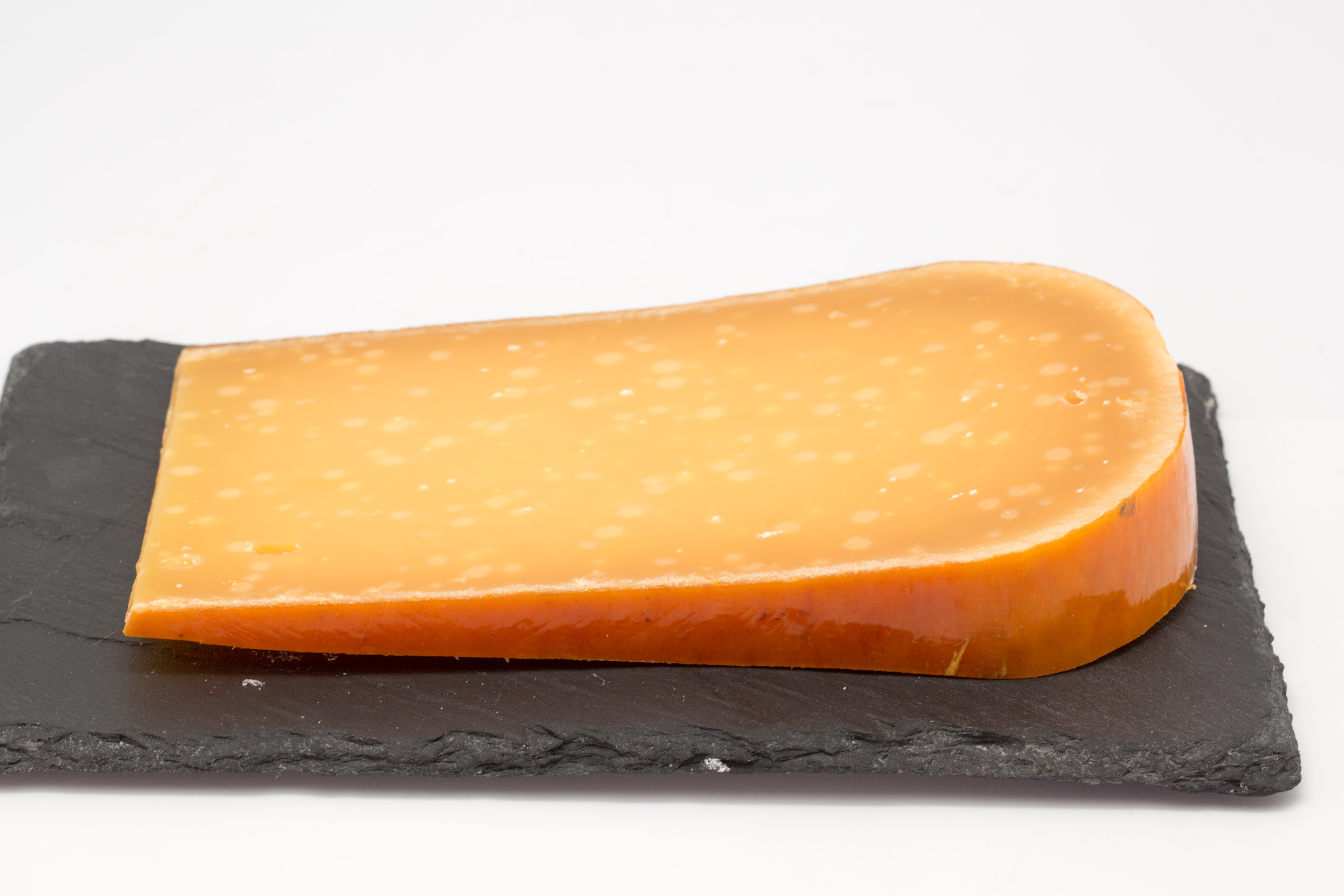 Cheese